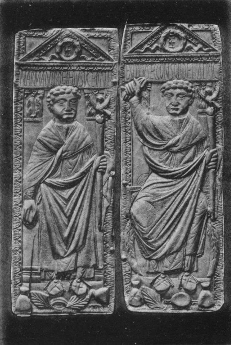 Relief depicting Narius Manlius Boethius, father of the famous author Anicius Manlius Severinus Boethius